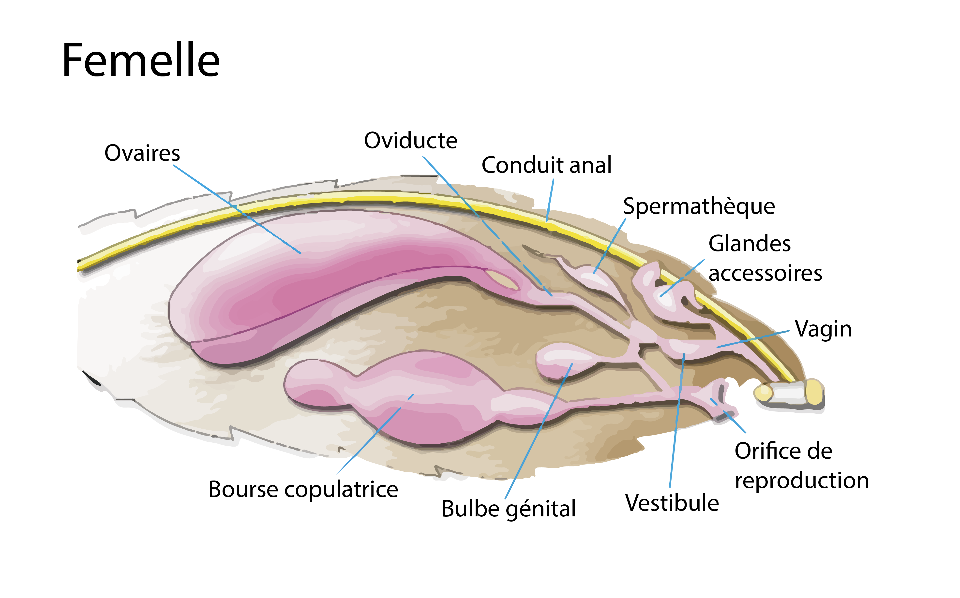 Diagram of female genitalia of Lepidoptera (